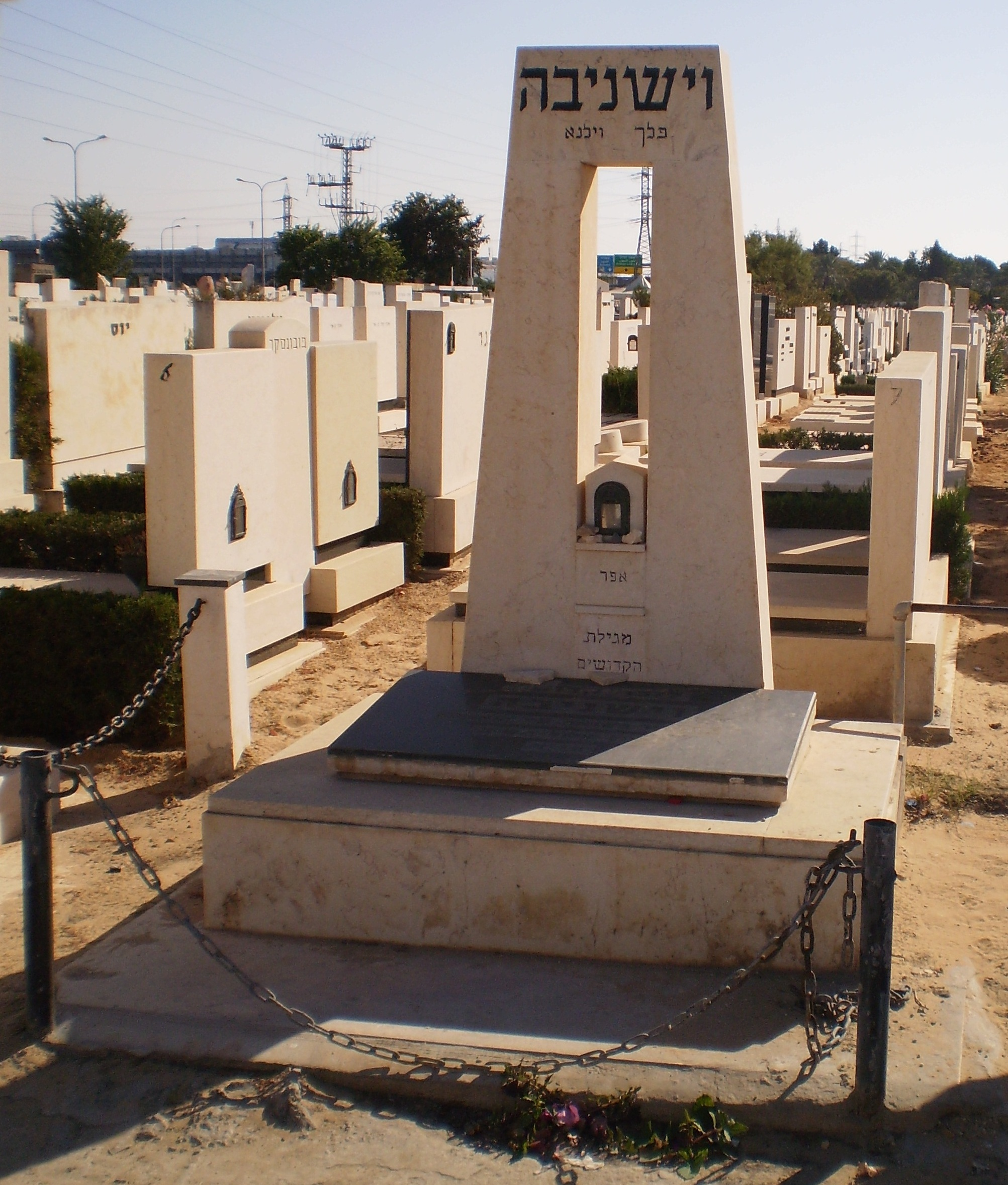 Vishnyeva Jewery Holocaust memorial at Holon Cemetery